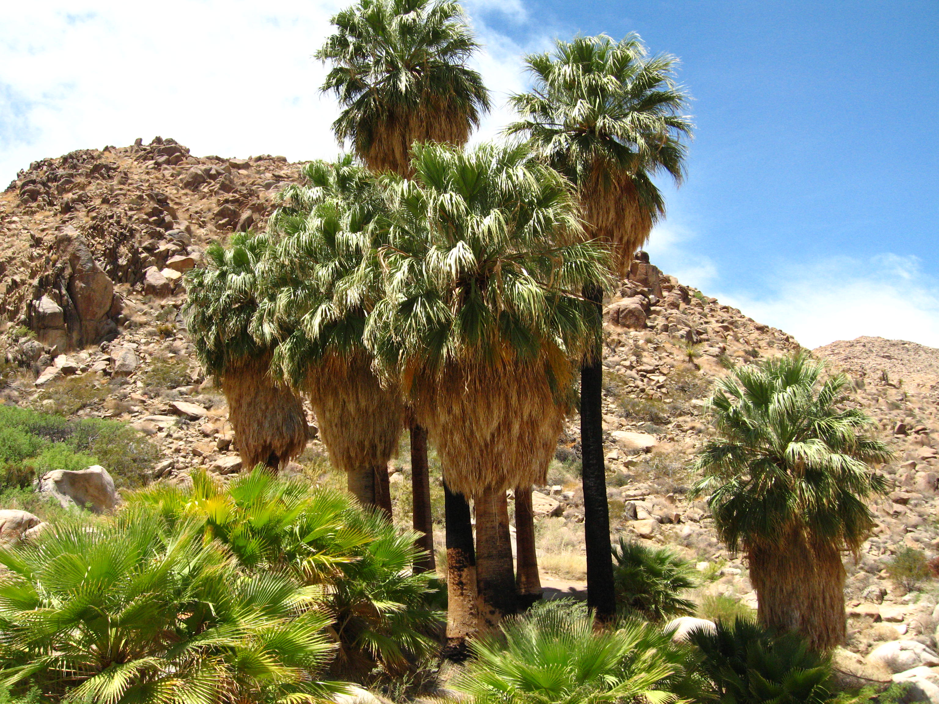 49 Palms Oasis in Joshua Tree National Park near Twentynine Palms, CA. Located on the northern border of the park, and can be reached via a 1.5 mile (2.4km) trail.